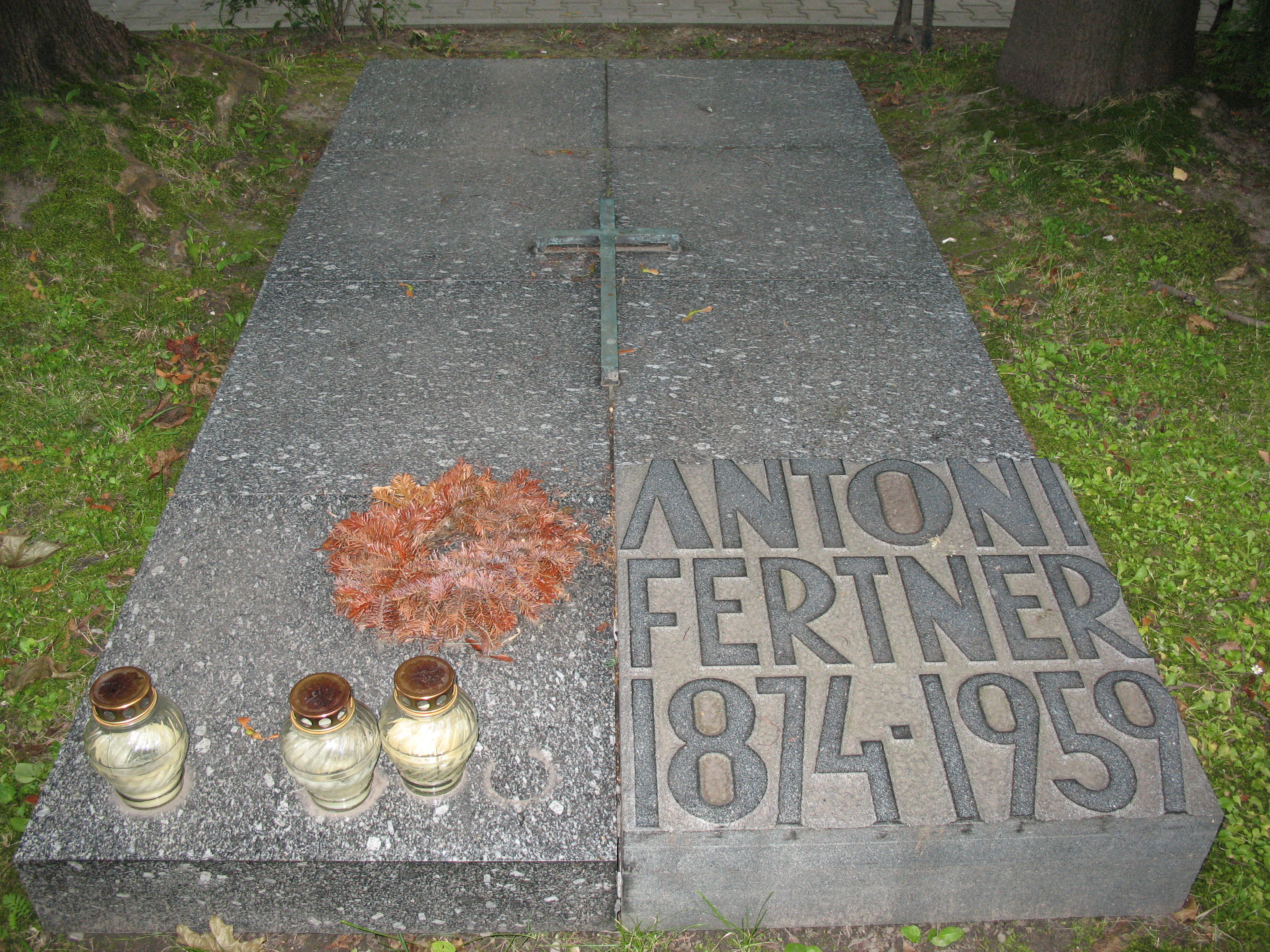 Tomb of Antoni Fertner